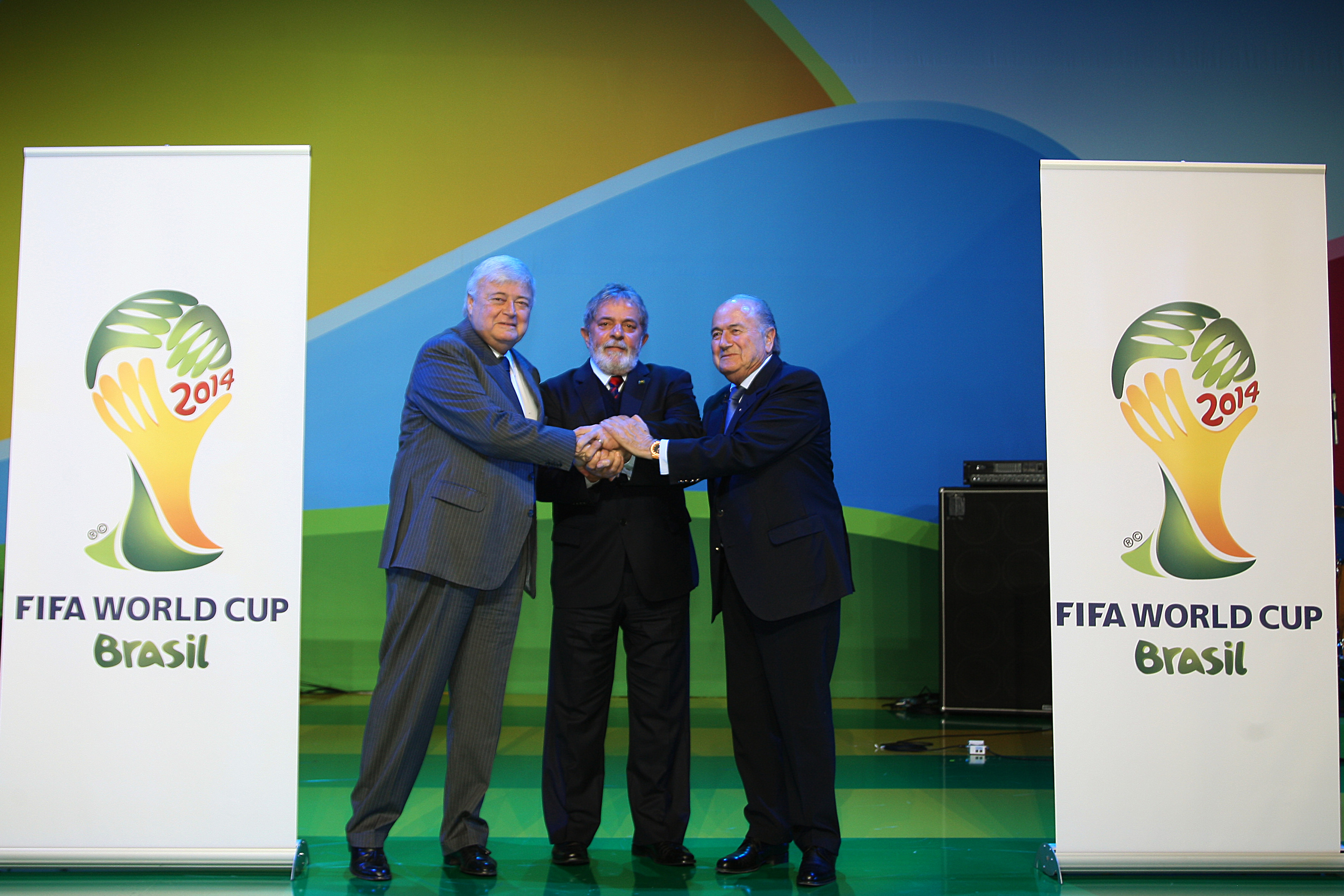 The 2014 FIFA World Cup logo is announced in Johannesburg during a ceremony with CBF president Ricardo Texeira, Brazilian president Luiz Inácio Lula da Silva, and FIFA president Joseph Blatter.